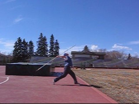 Foote Fields throwing